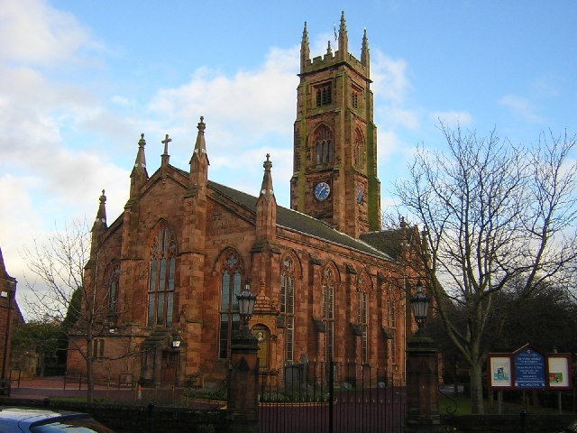 The Parish Church of Bothwell. Quire built 1398 by Archibald the Grim, 3rd Earl of Douglas, added to previous Norman structure. Oldest collegiate church still in use in Scotland. Alterations 1719, 1833(Nave rebuilt), 1898 (quire restored), 1933 (two parts of building united on one level). Originally dedicated to St Bride, then to St Mary, reverted to St Bride 1929, retained name until amalgamation of two village congregations - Bothwell Parish Church (1978). Monument in foreground to Joanna Baillie, born 1762, daughter of the manse. Niece of Hunter brothers of East Kilbride, surgeons - monument to them just visible behind flowerbed 427229. Later a well-known literary figure, died 1851, Hampstead. Monument erected 1899, contains mosaics by Murano.